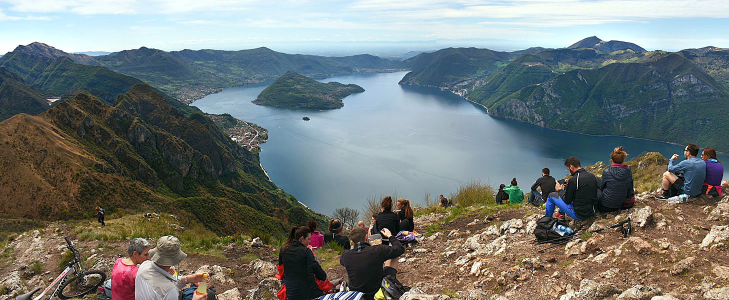 Corna Trentapassi southern views